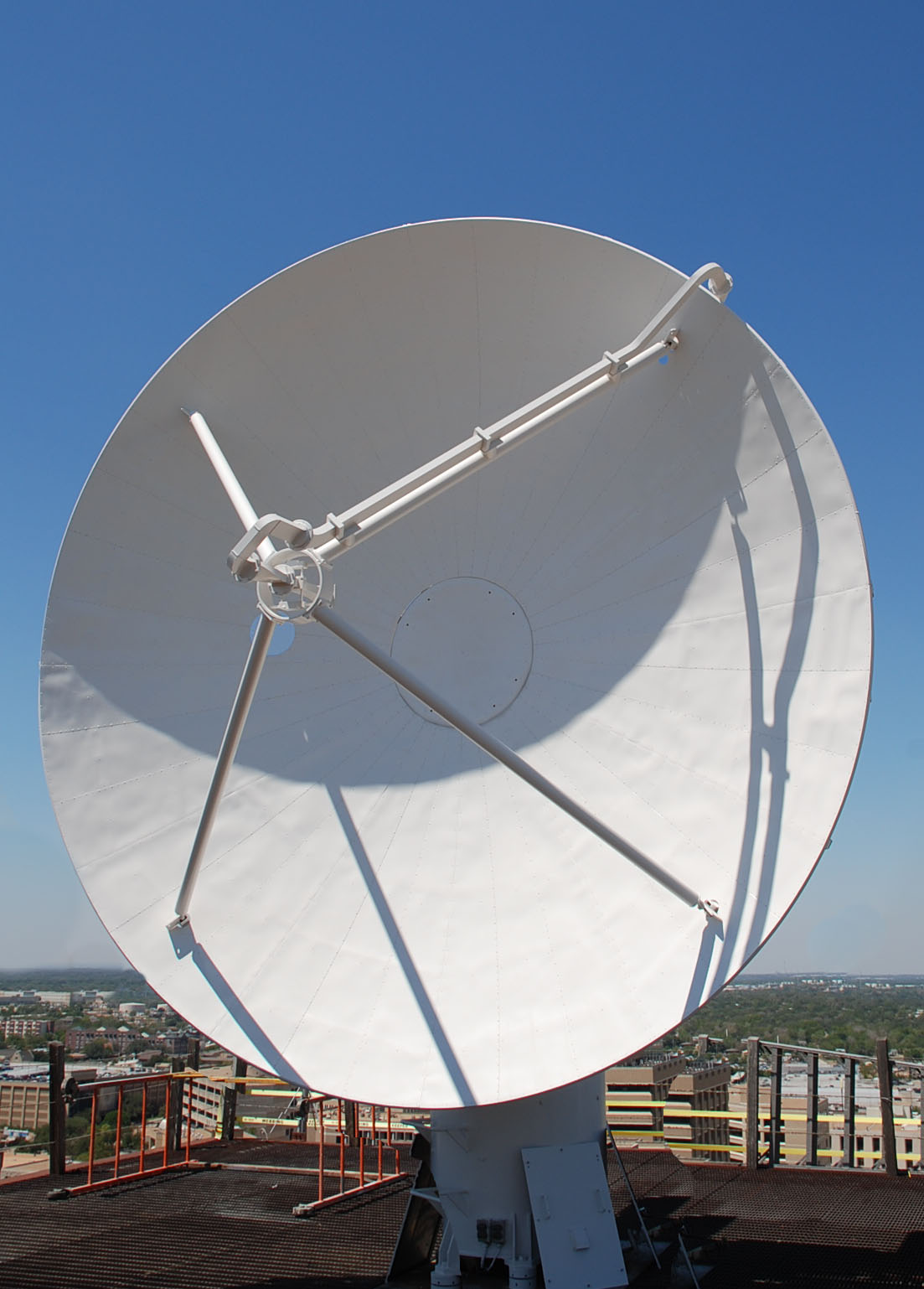 The renovated ADRAD